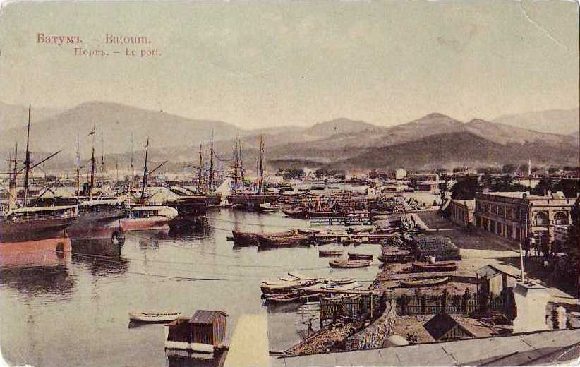 View of Batumi Bay, 19th century.